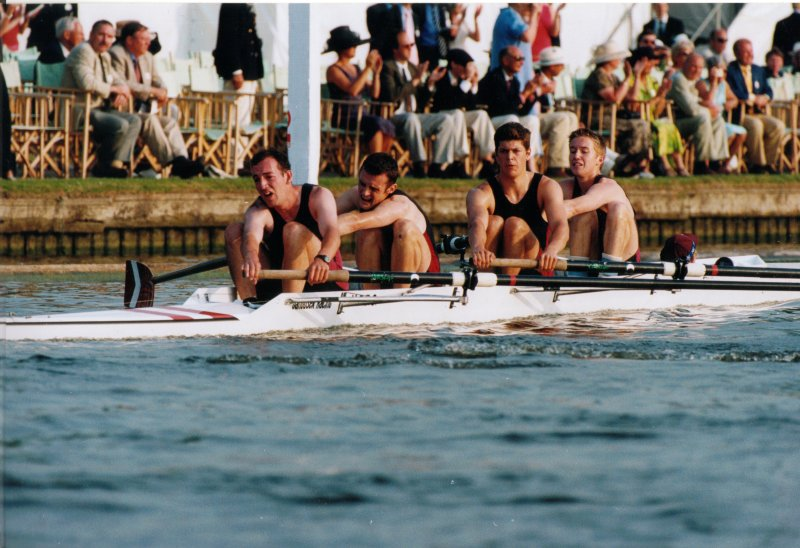 University College 1st IV in Britannia Challange Cup 2001